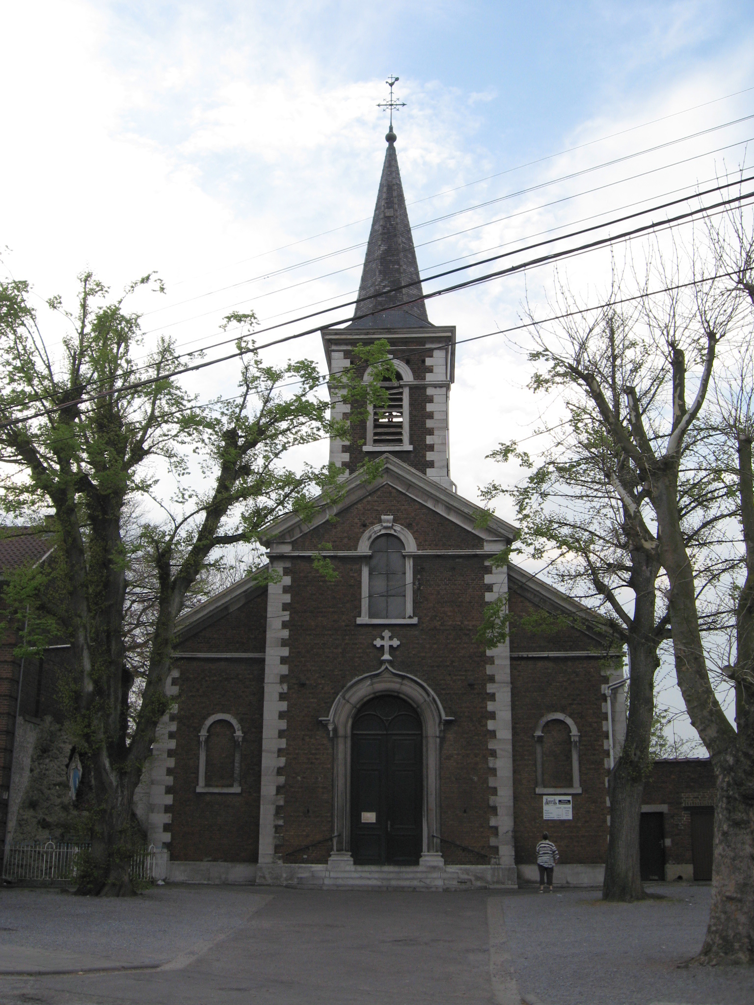 Church of Saint John the Baptiser in Loncin, Ans, Liège, Belgium